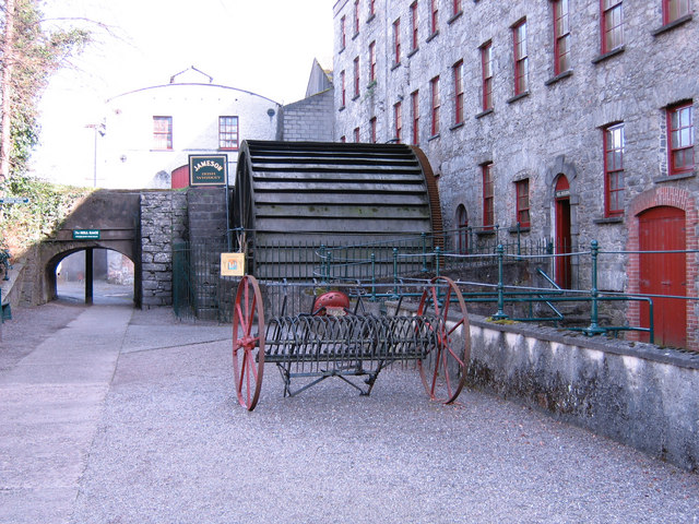 The waterwheel which drove the malt grinding stones at the Midleton Distillery